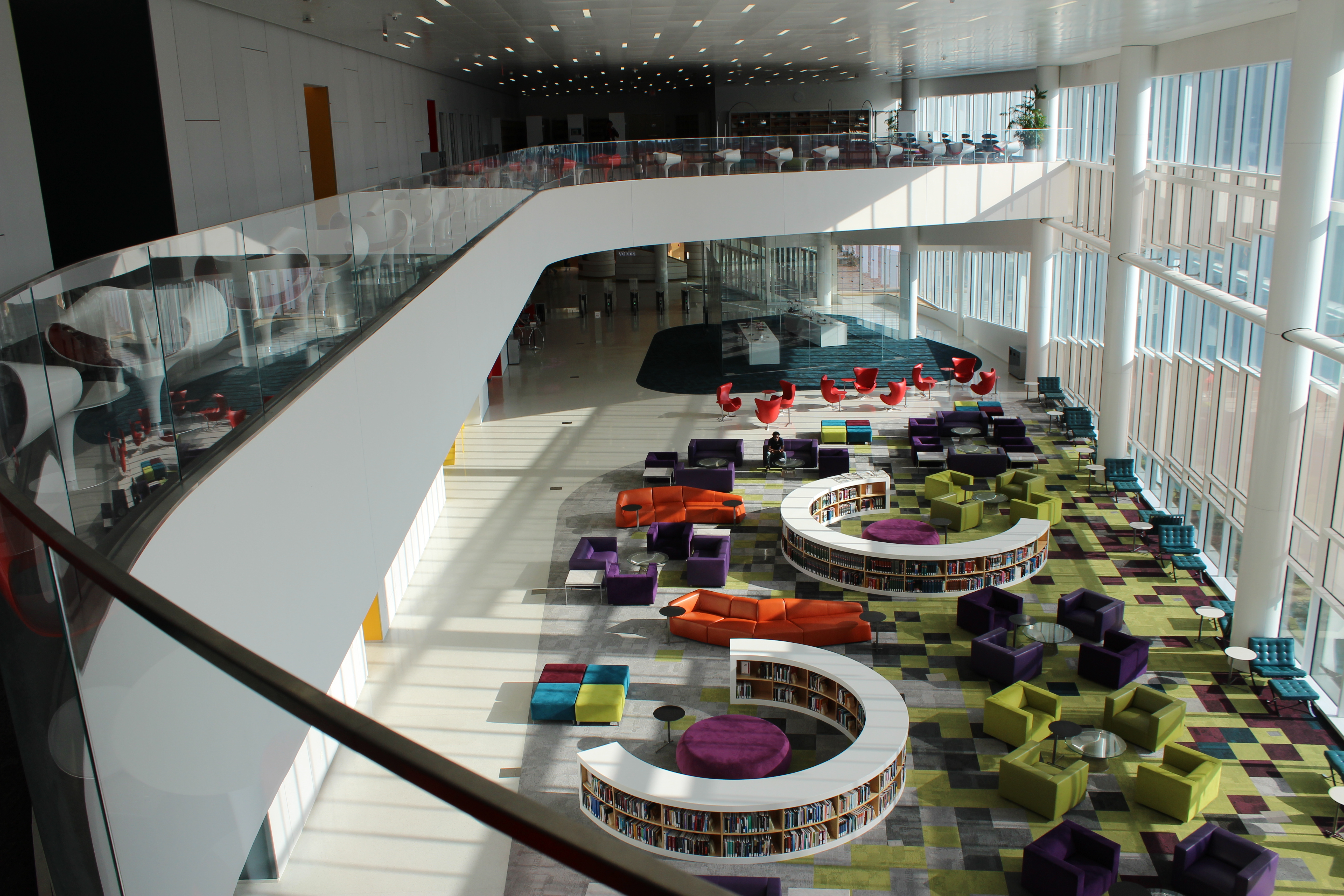 SKEMA Raleigh Campus (USA, North Carolina)